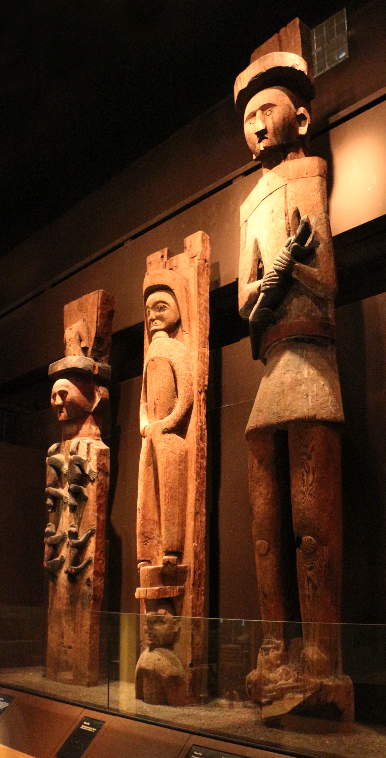 Native American artefacts in the Field Museum of Natural History